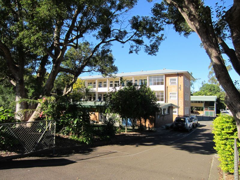 Block D; north elevation, from Sherley Street entrance, from northwest (EHP, 2 June 2015)